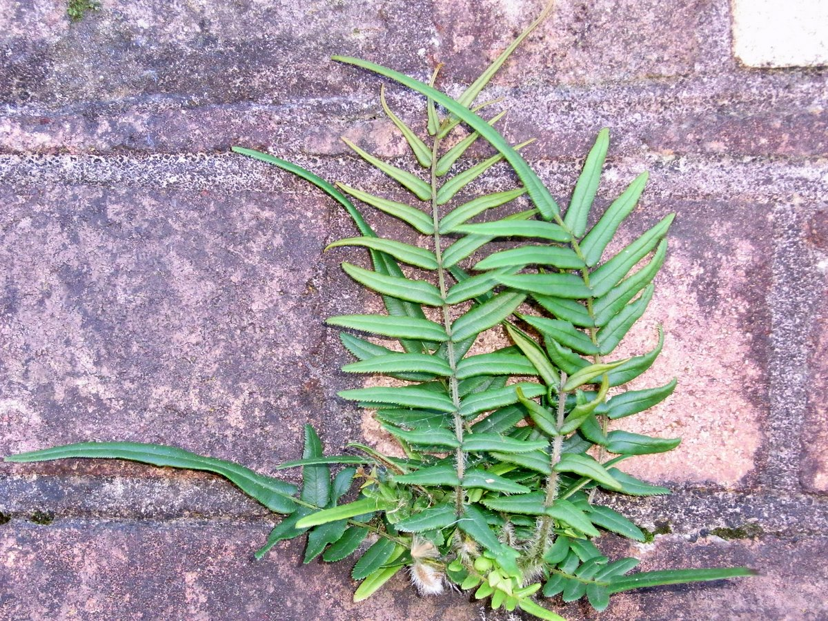 Pteris vittata growing on housebricks, Chatswood Primary School, Pacific Highway Chatswood NSW Australia. Bricks are 230 × 110 × 76mm